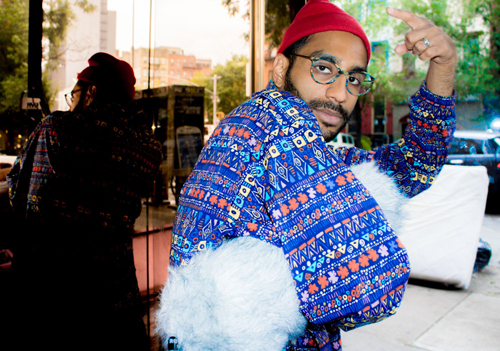 Ashok Kondabolu in the East Village Radio Station